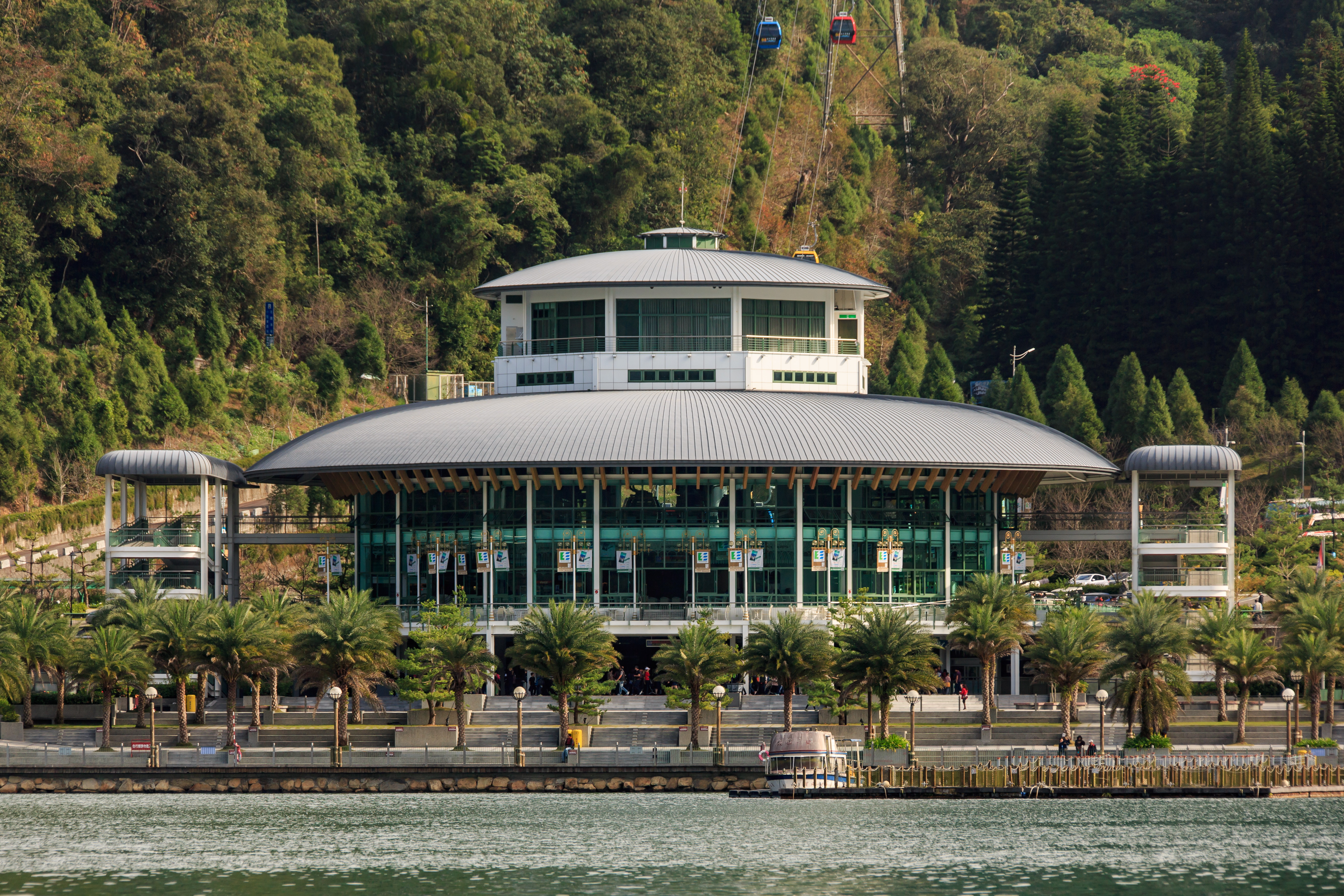 Yidashao, Nantou County, Taiwan: Sun Moon Lake Ropeway